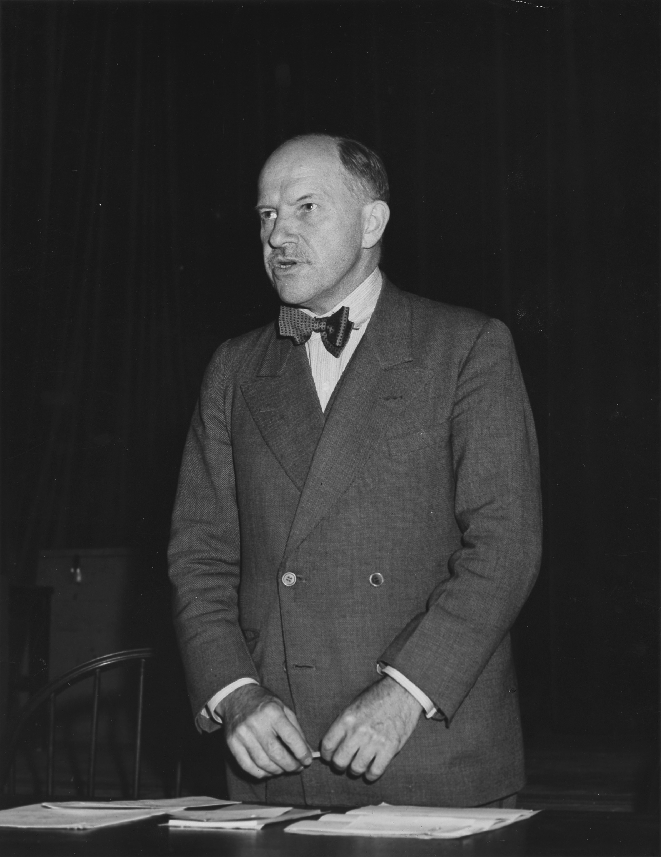 Identification on accompanying label (typewritten): Paul Manship, Chairman of the New York City Council for Art Week, opens the meeting held Thursday evening, October 16, 1941, at the Architectural League.